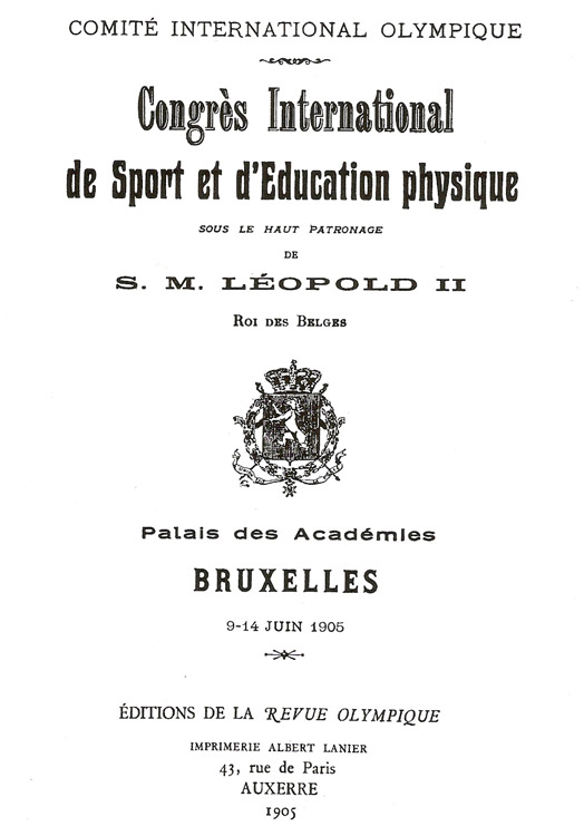 cover page of the Olympic Congress Report 1905 cover page, adapted reproduction, no restrictions on use Copyright: free of charges